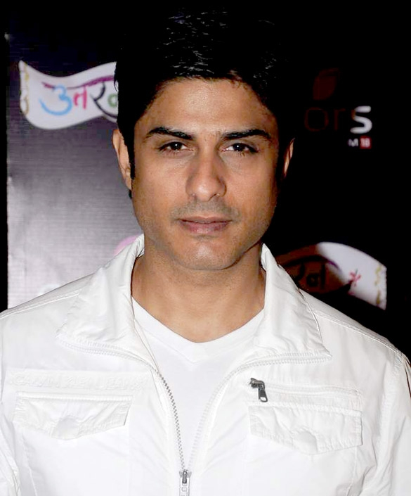 Vikas Bhalla at the success bash of TV serial Uttaran